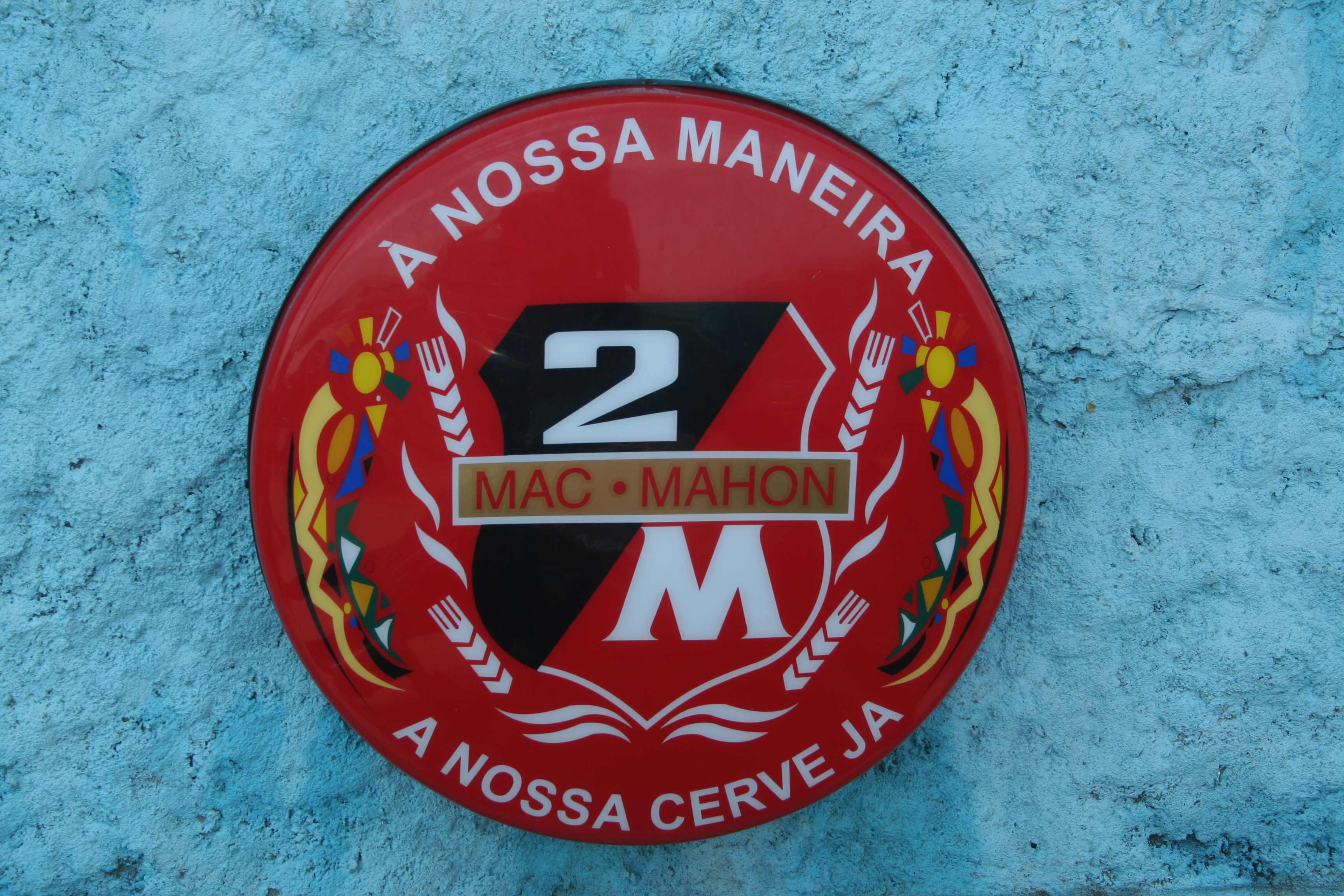 2M, a beer brand from Mozambique